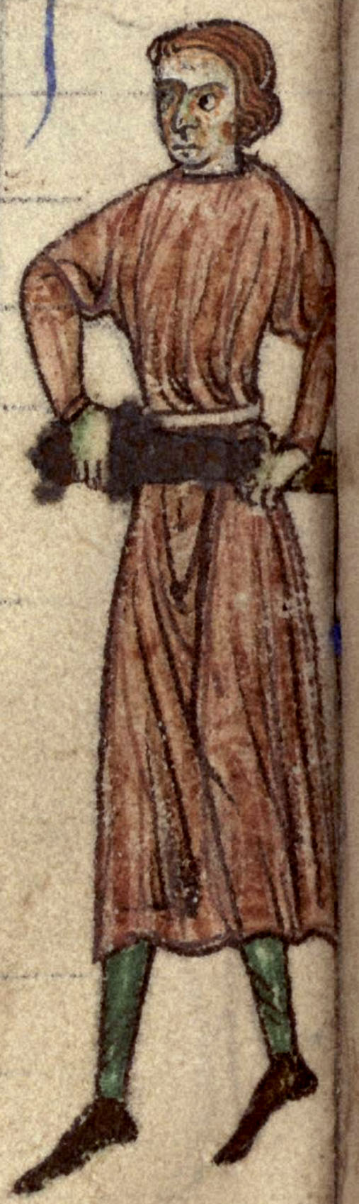 Illustration of Richard de Clare, 2nd Earl of Pembroke in Gerald de Barri's Expugnatio Hibernica.